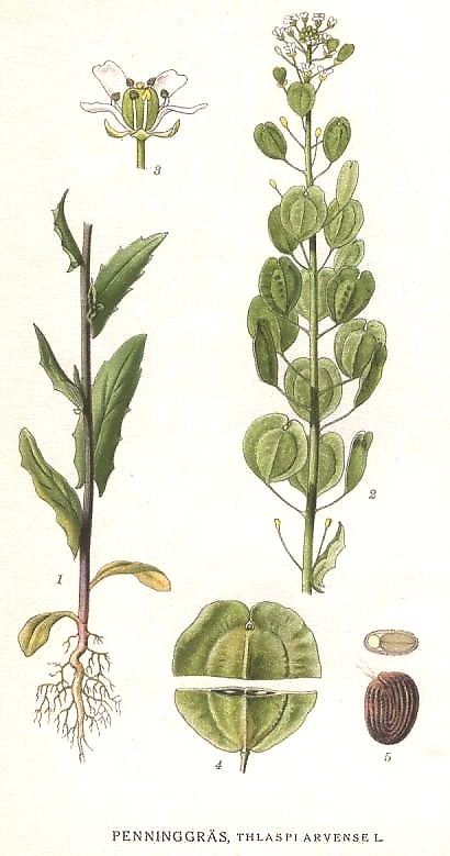 Original Description Penninggräs, Thlaspi arvense L.